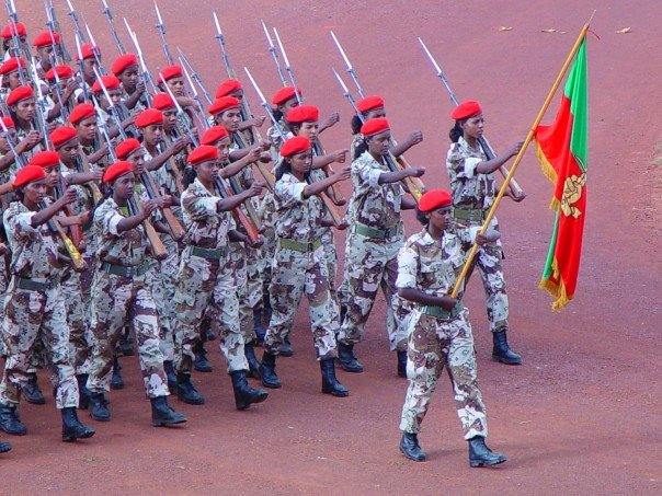 Eritrean female soldiers marching in a parade.